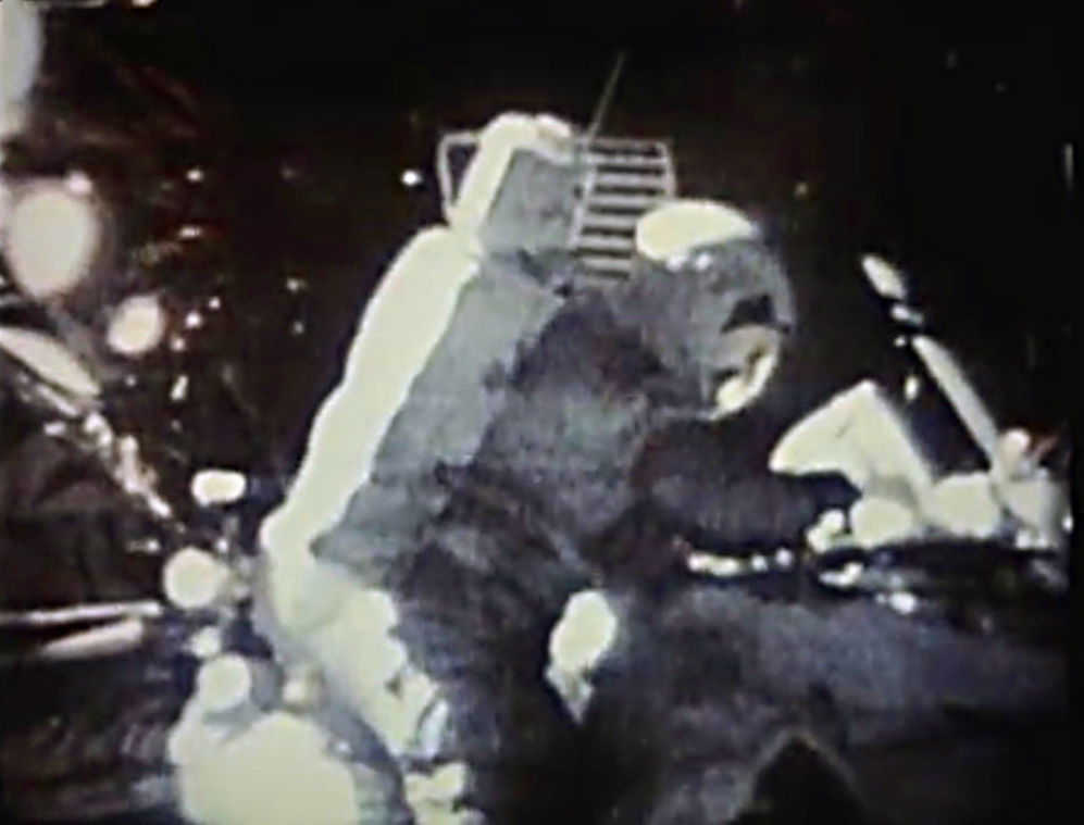 David Scott cancels an envelope for the Postal Service while on the Moon.